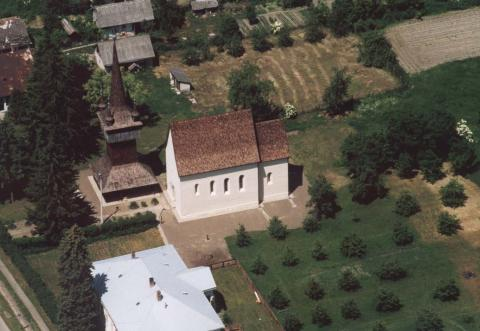 Reformed Church, Nagylónya (Lónya), Hungary, aerialphotography